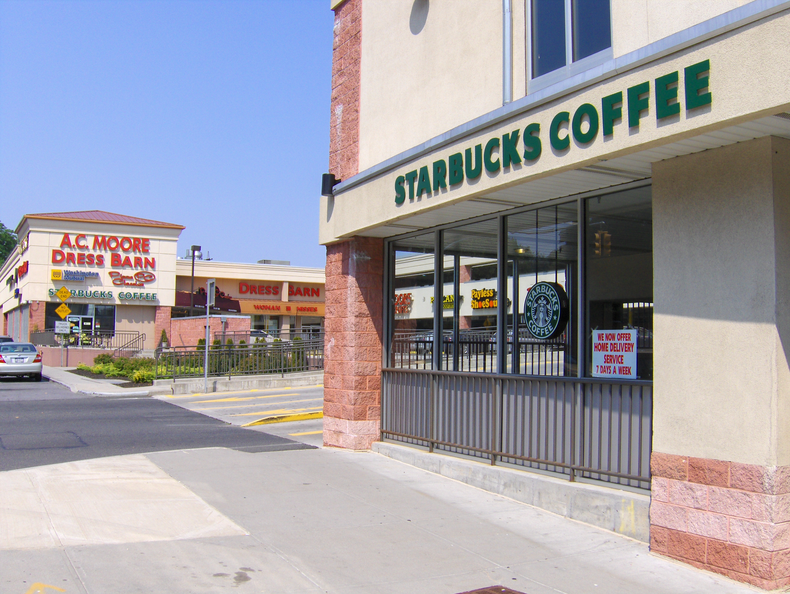 There are two Starbucks Coffee stores in this one small shopping center on Union Turnpike on the Glendale/Forest Hills border in Queens. One of them is set to close.